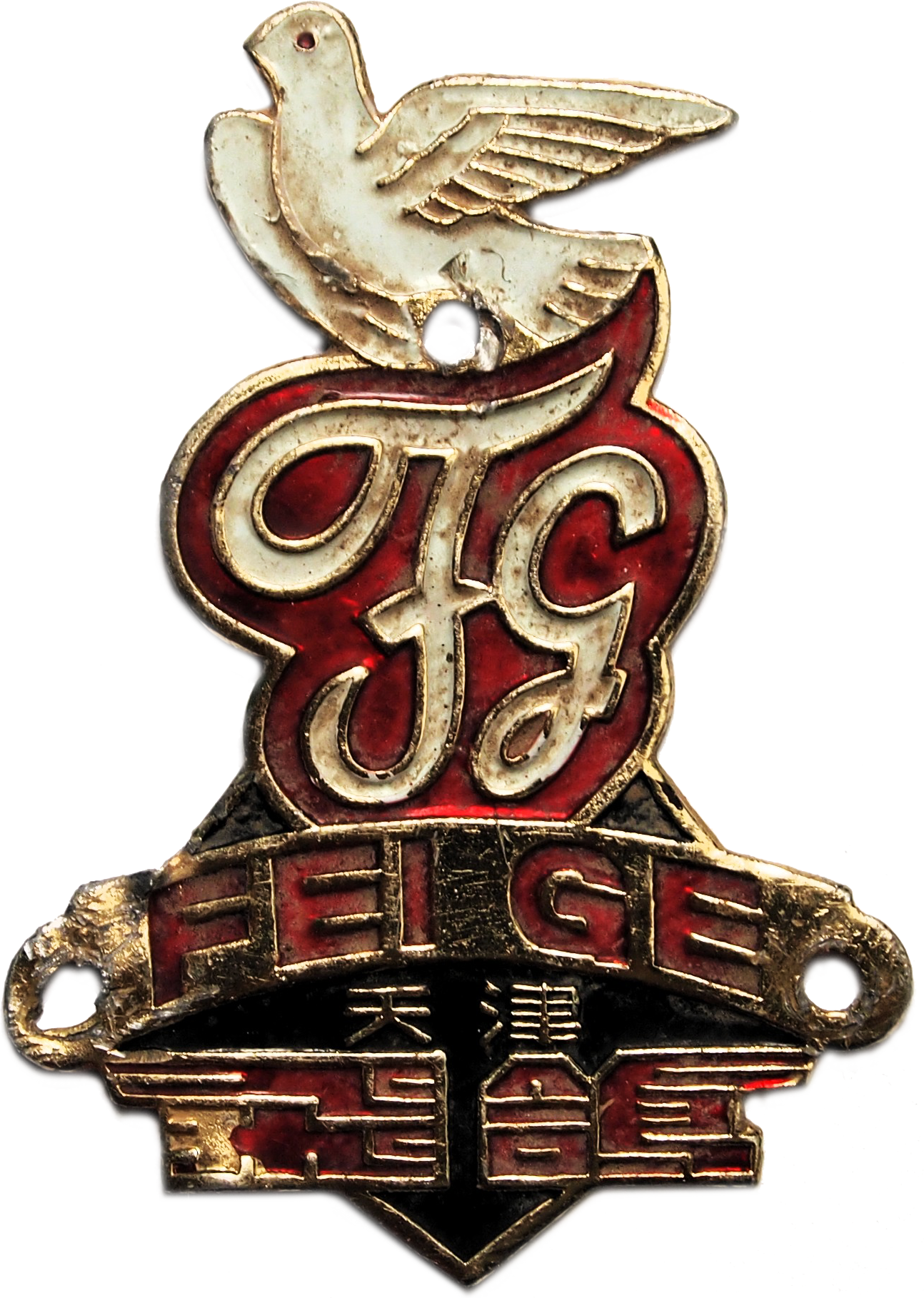 A picture of the headbadge from a Flying Pigeon brand of bicycle, removed from the bicycle and photographed on a simple background.